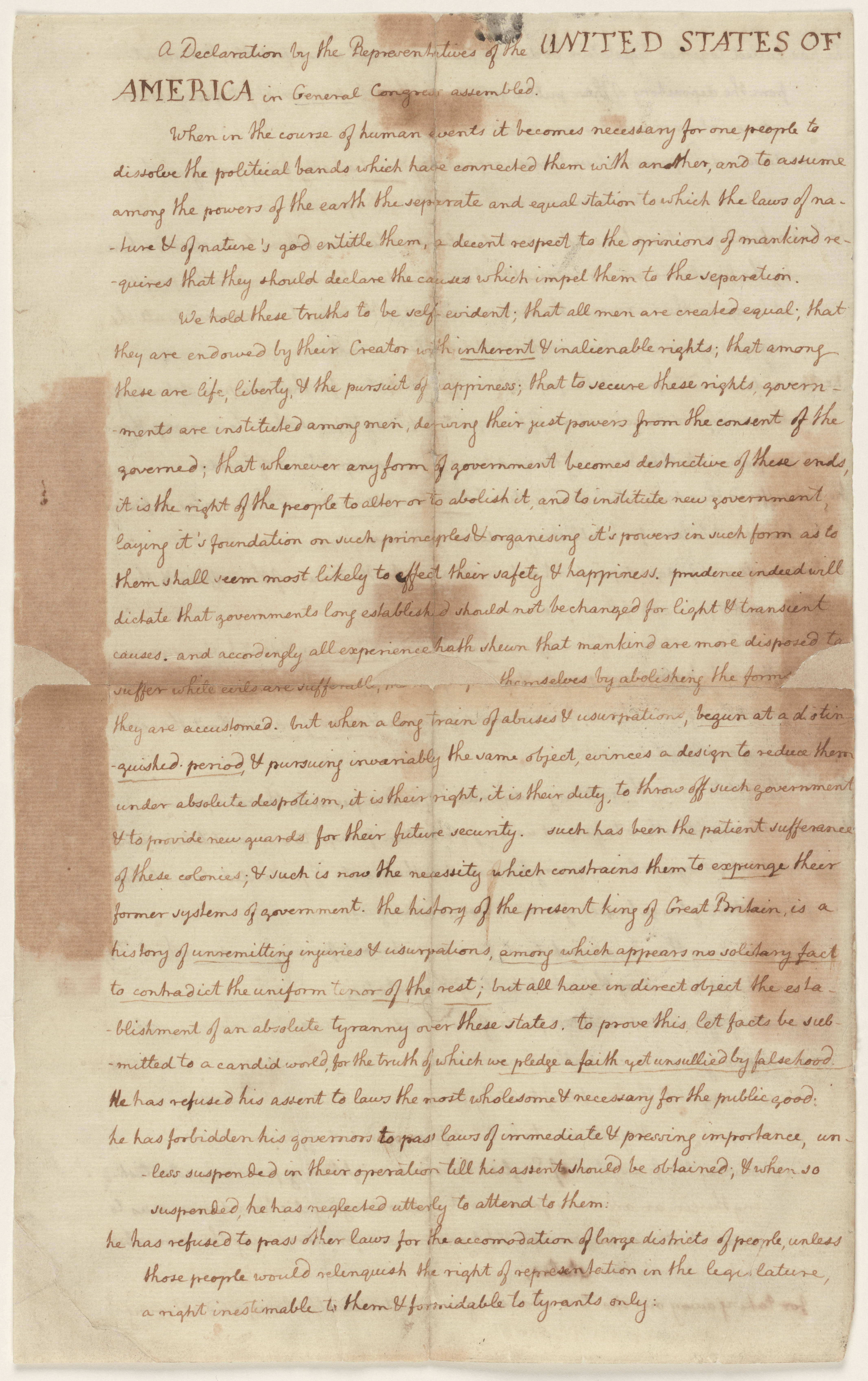 Declaration of Independence. Draft in the handwriting of Thomas Jefferson.